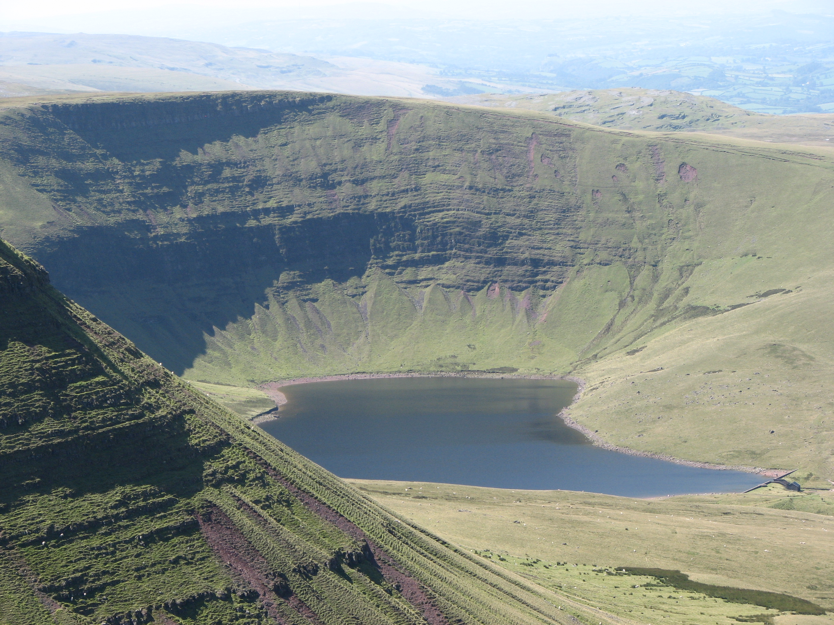 A larger view of the lake